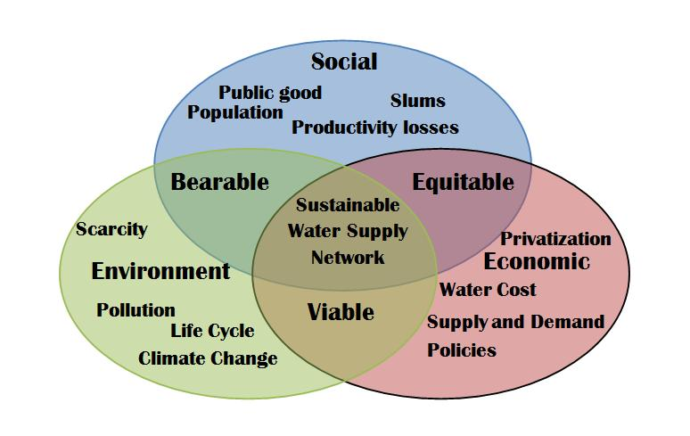 Sustainability chart